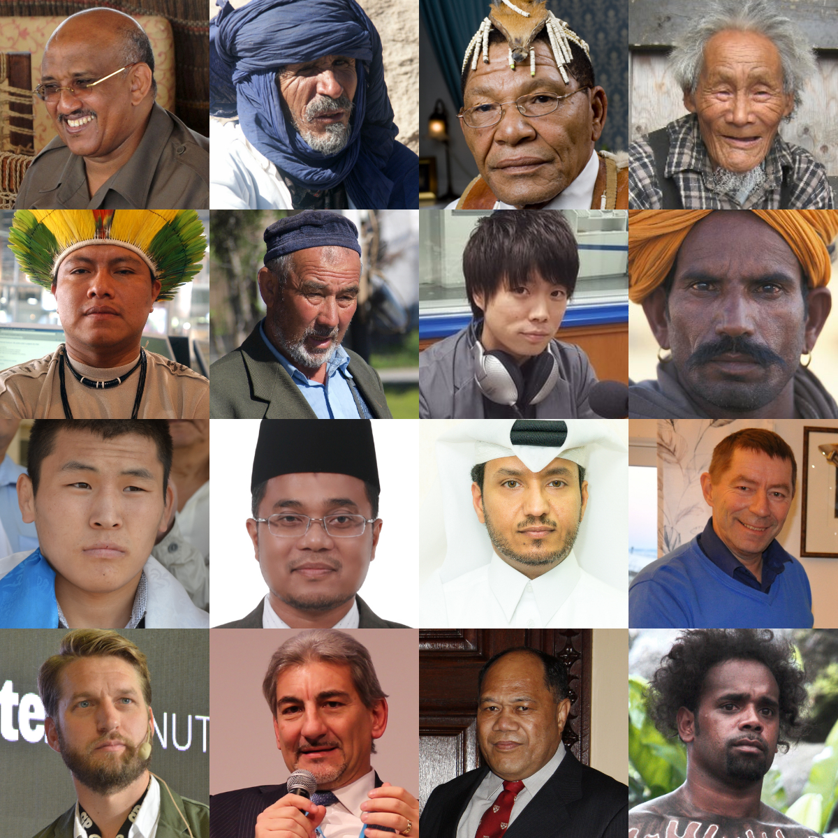 Collage of different ethnic groups: Afar man, Tuareg man, San man, Inuit man from Canada, Terena indigenous man from Brazil, Kazakh man, Japanese man, Rajasthani man (India), Buryat man, Malay man, Arab man from Qatar, Sami man from Norway, Swedish man, Italian man, Tongan man, Indigenous Australian